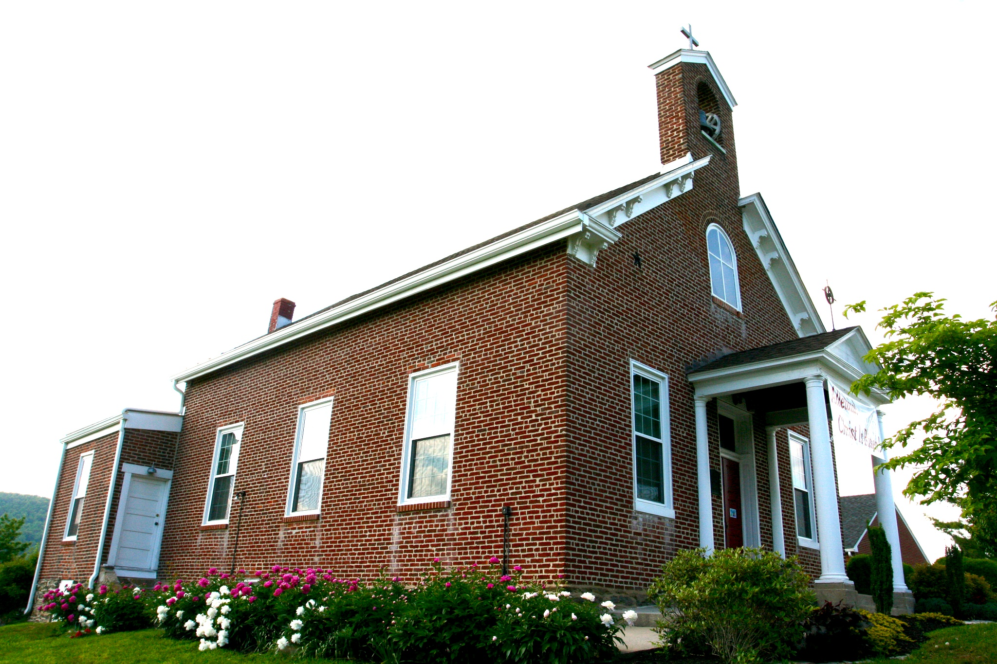 St. Luke's Episcopal Church of Brownsville, Washington County, Maryland